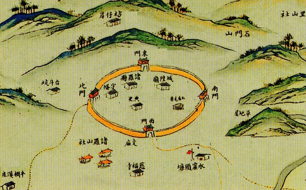 This is a part(Chiayi) of Qianlong Taiwan Map.